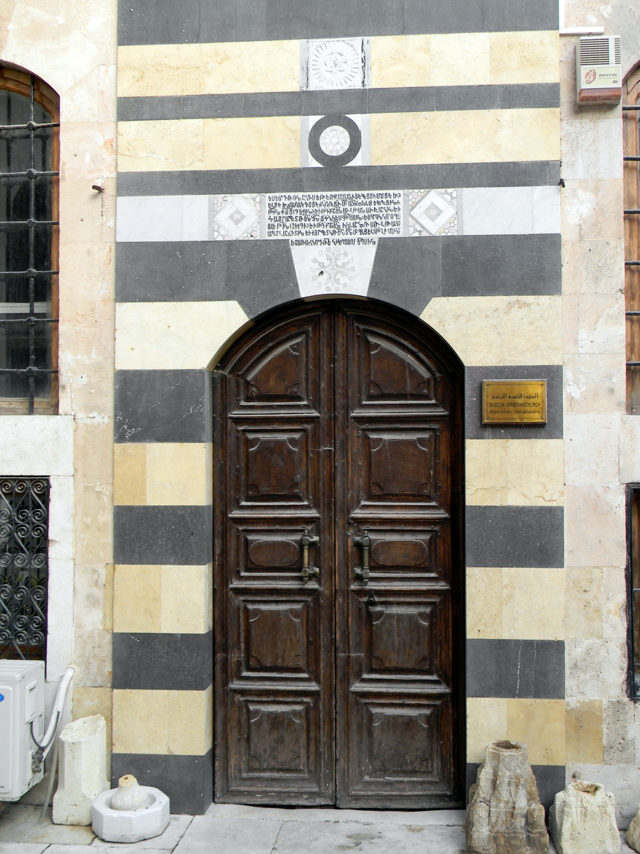 Zarehian Treasury Museum, Forty Martyrs Armenian Cathedral of Aleppo.